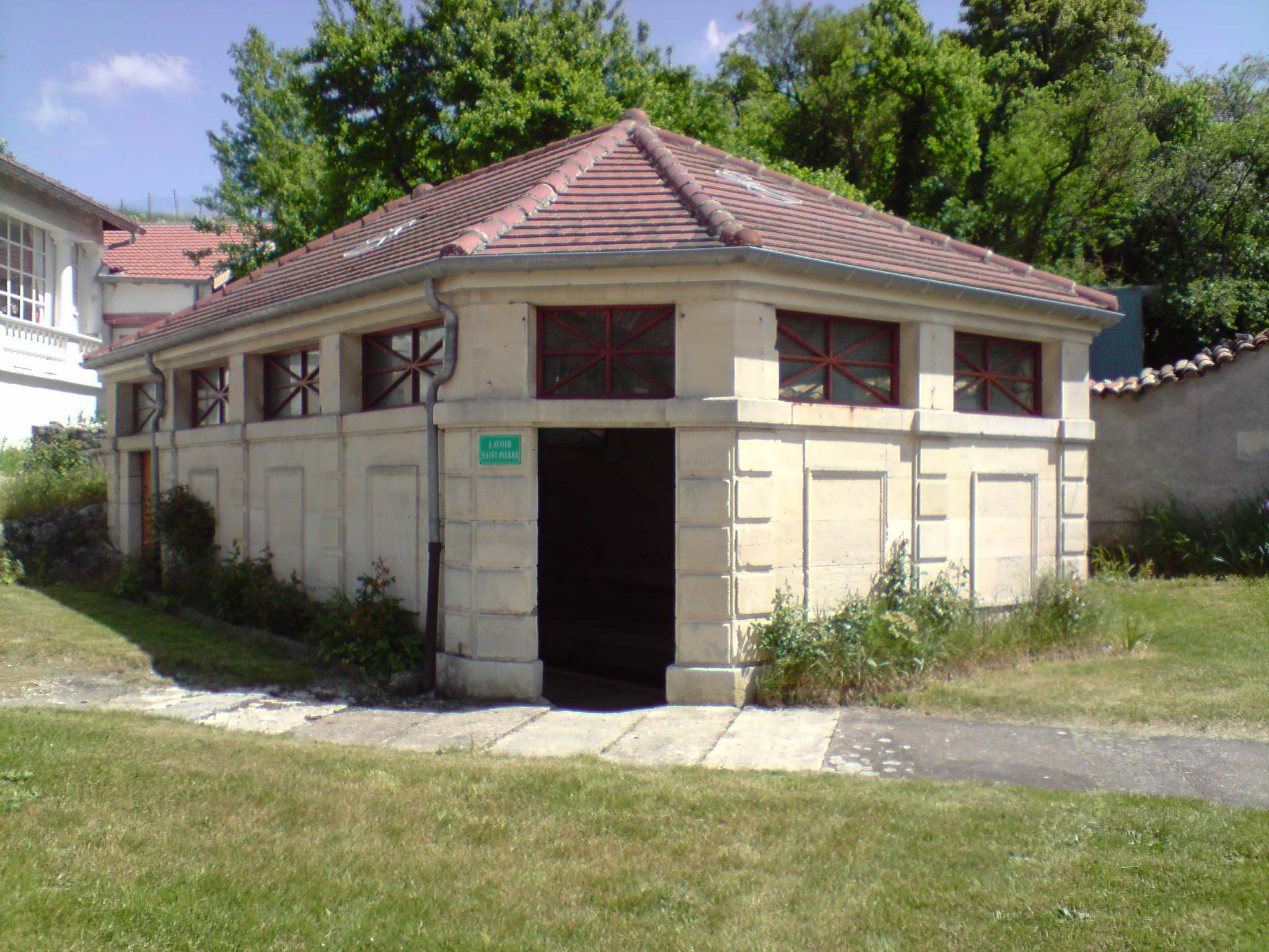 Lavoir of the city of Delouze, Meuse, France. Outside view